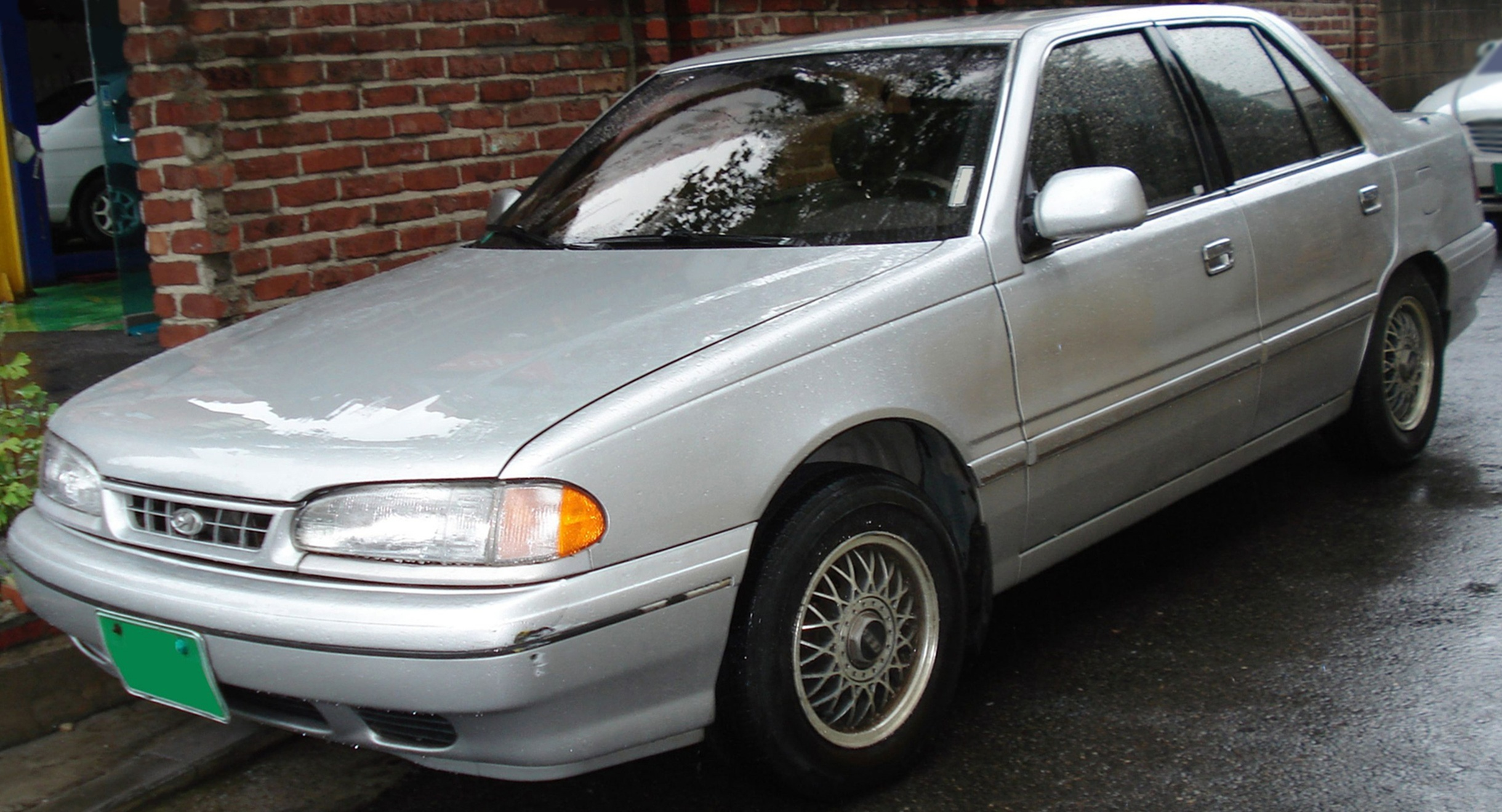 Hyundai New Sonata